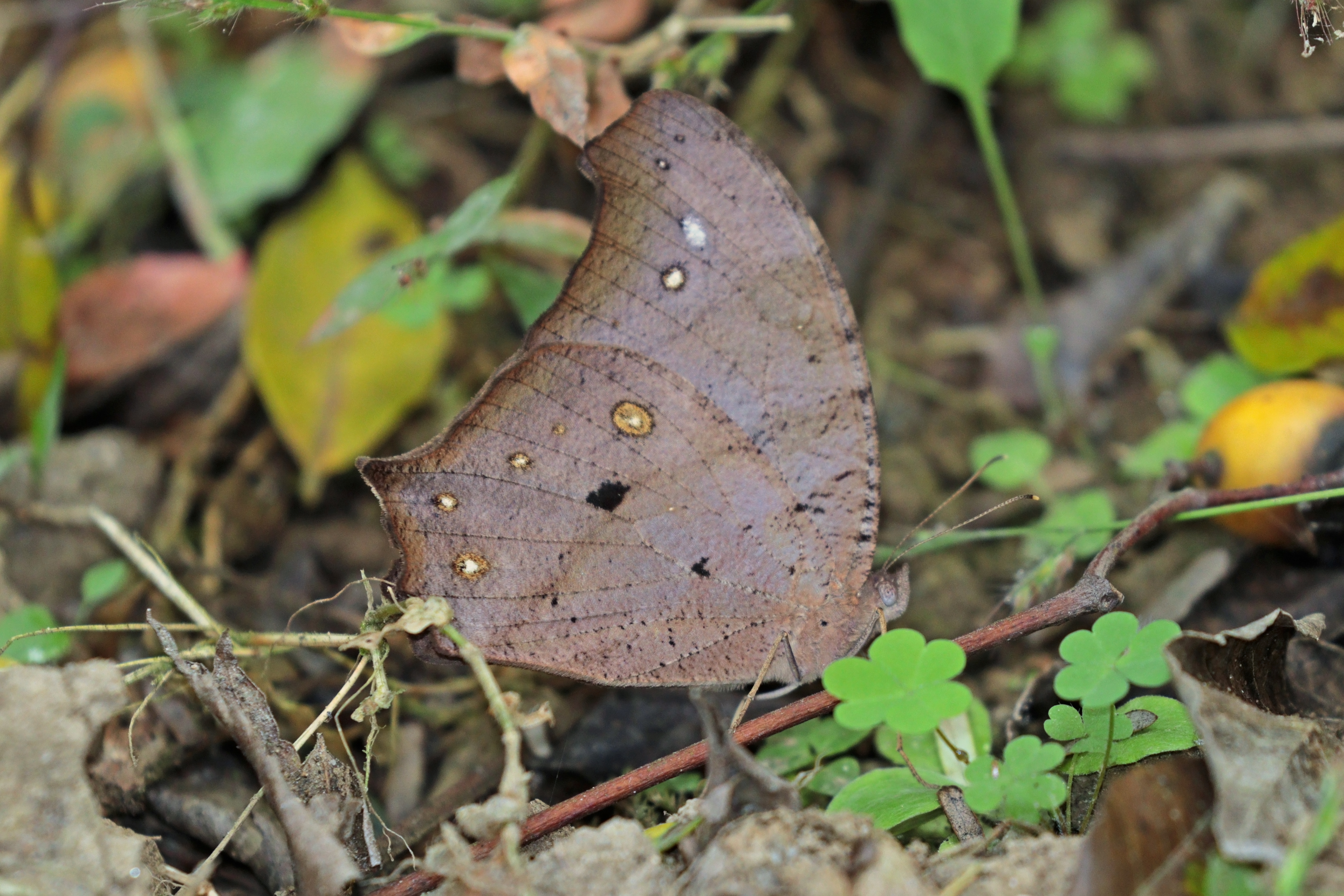 Dark evening brown (Melanitis phedima bela) dry season form, Chitwan, Nepal